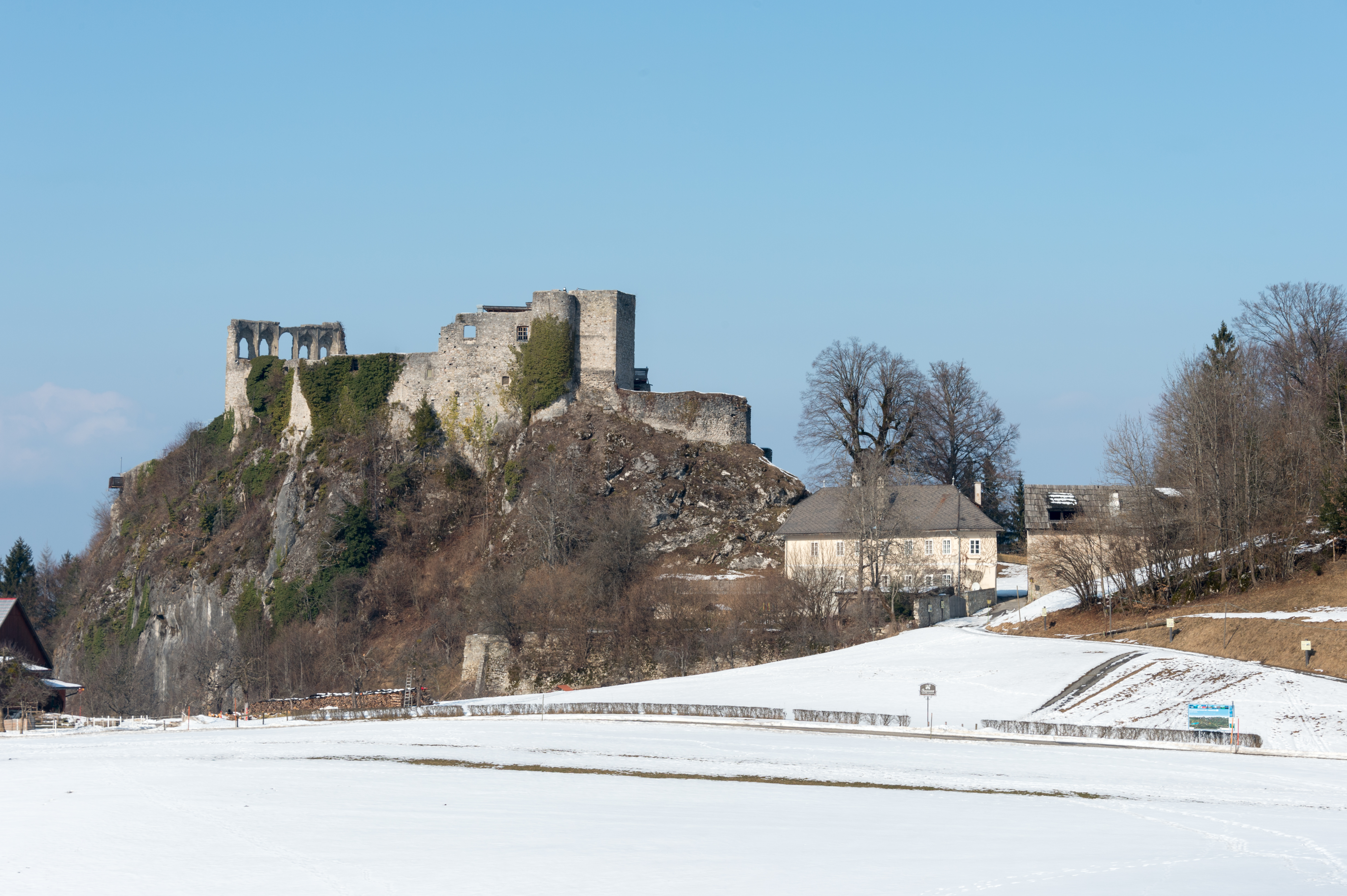 Castle ruin in Altfinkenstein #14, market town Finkenstein am Faaker See, district Villach Land, Carinthia, Austria, EU